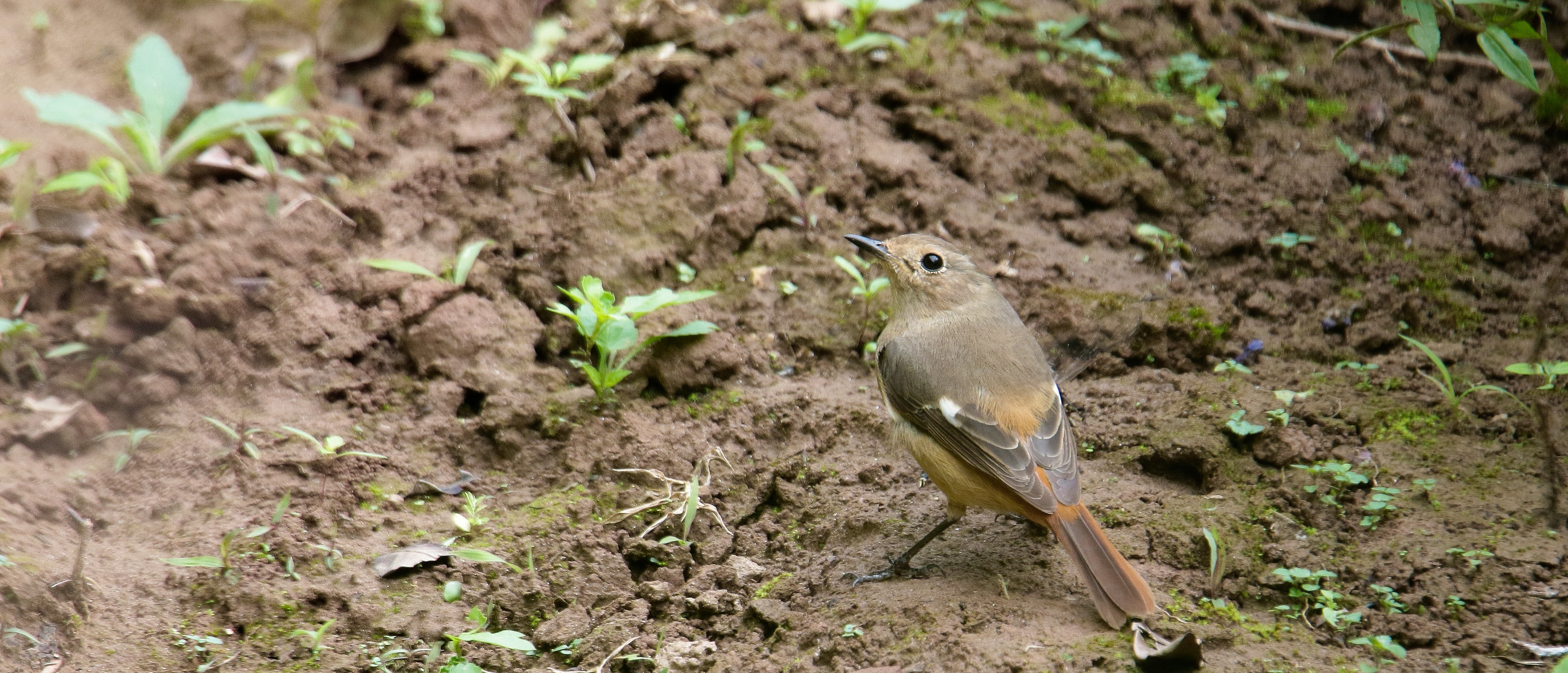 Daurian Redstart (femal)